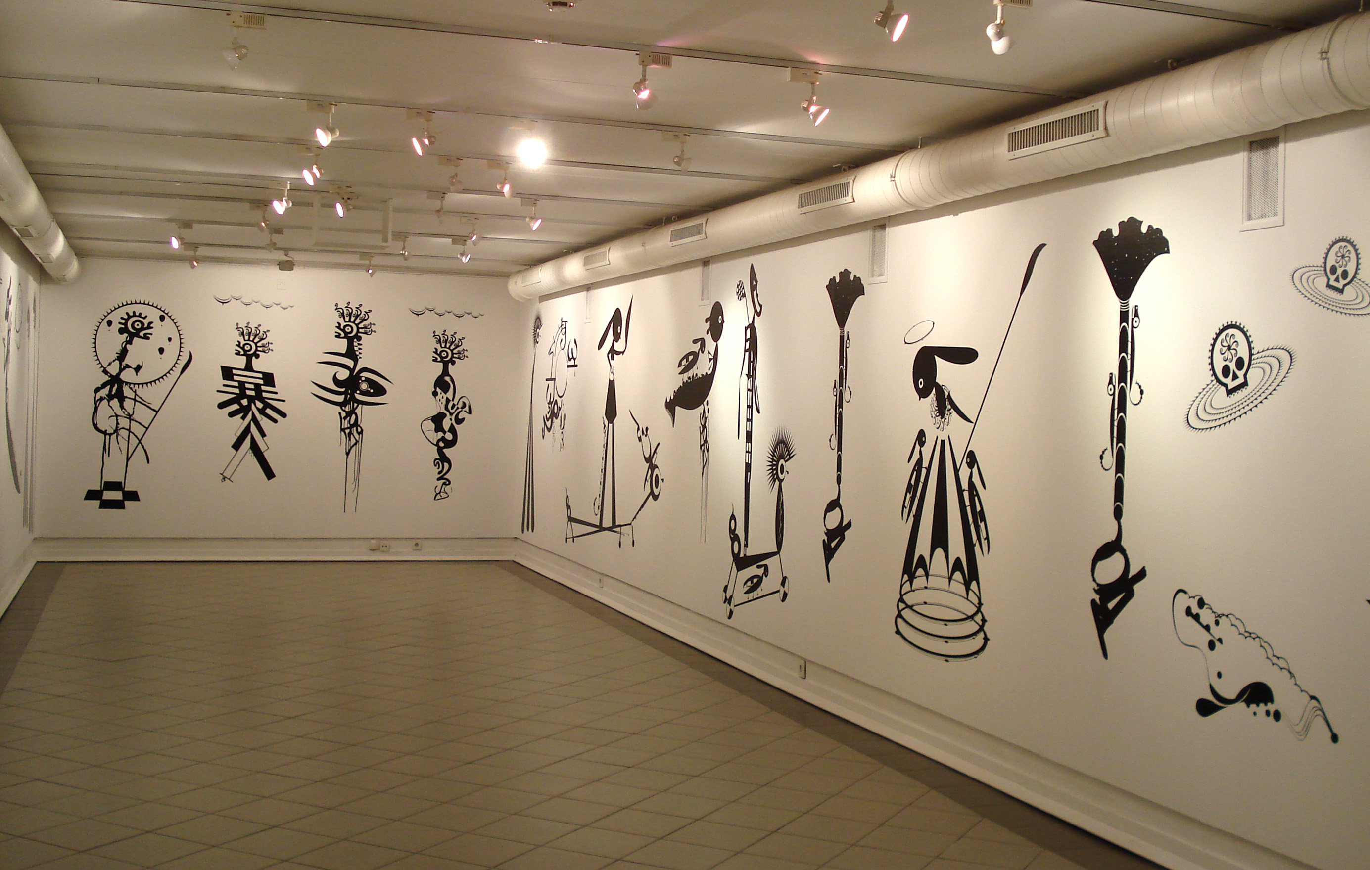 Miskolc Gaphic Triennial, Exhibition of Sándor Rácmolnár, Miskolc Gallery, Hungary, 2011